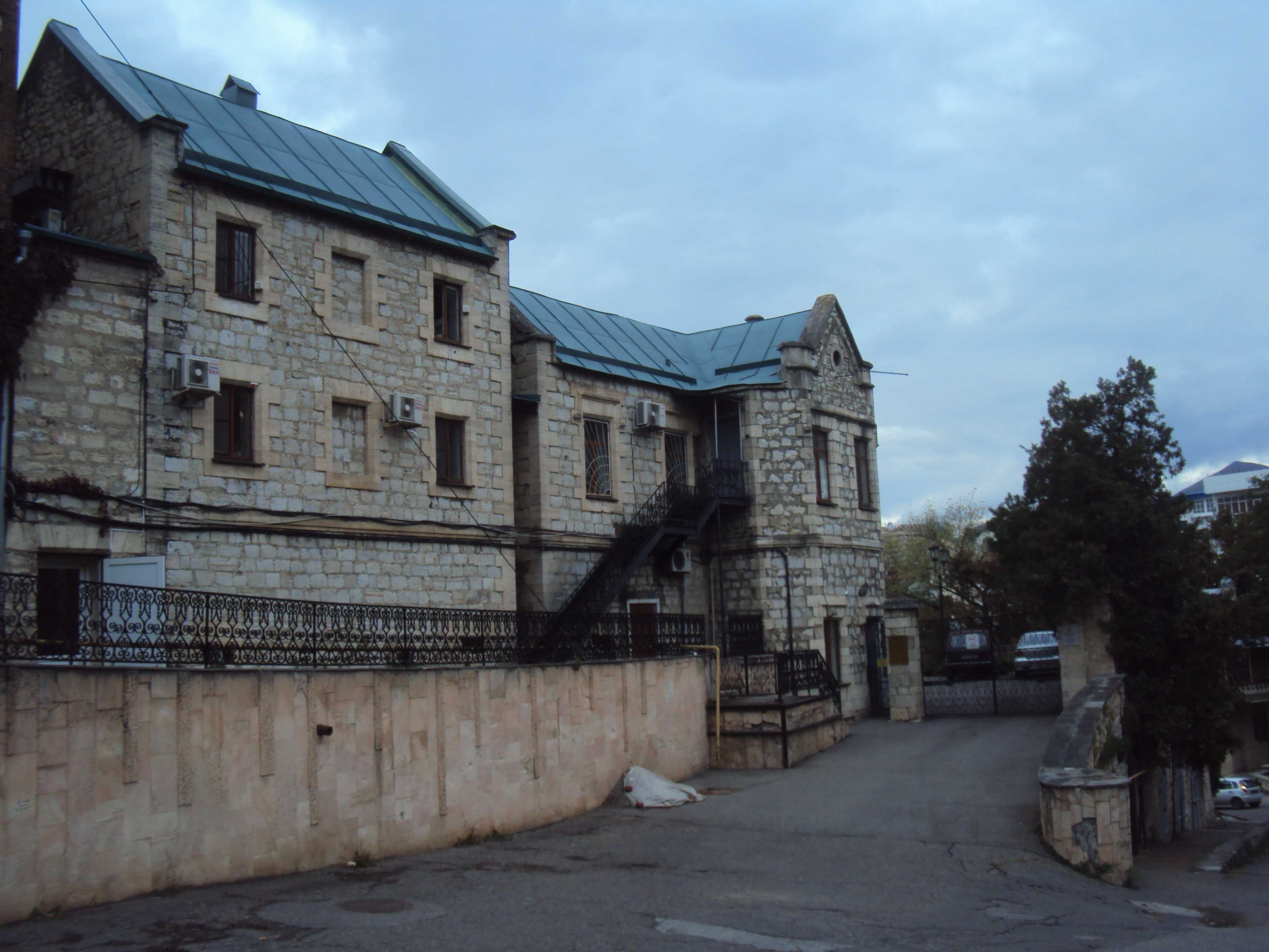 Upton House